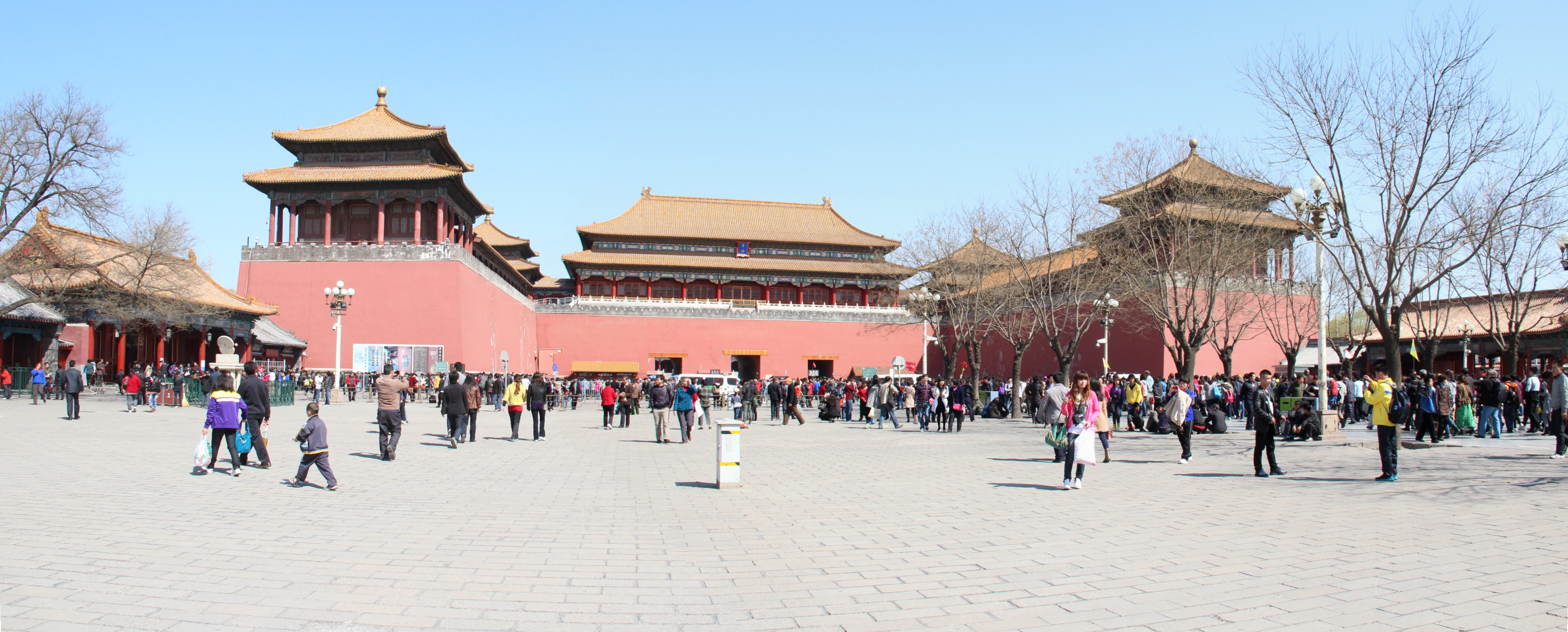 Beijing - Forbidden City(view N) - Meridian Gate